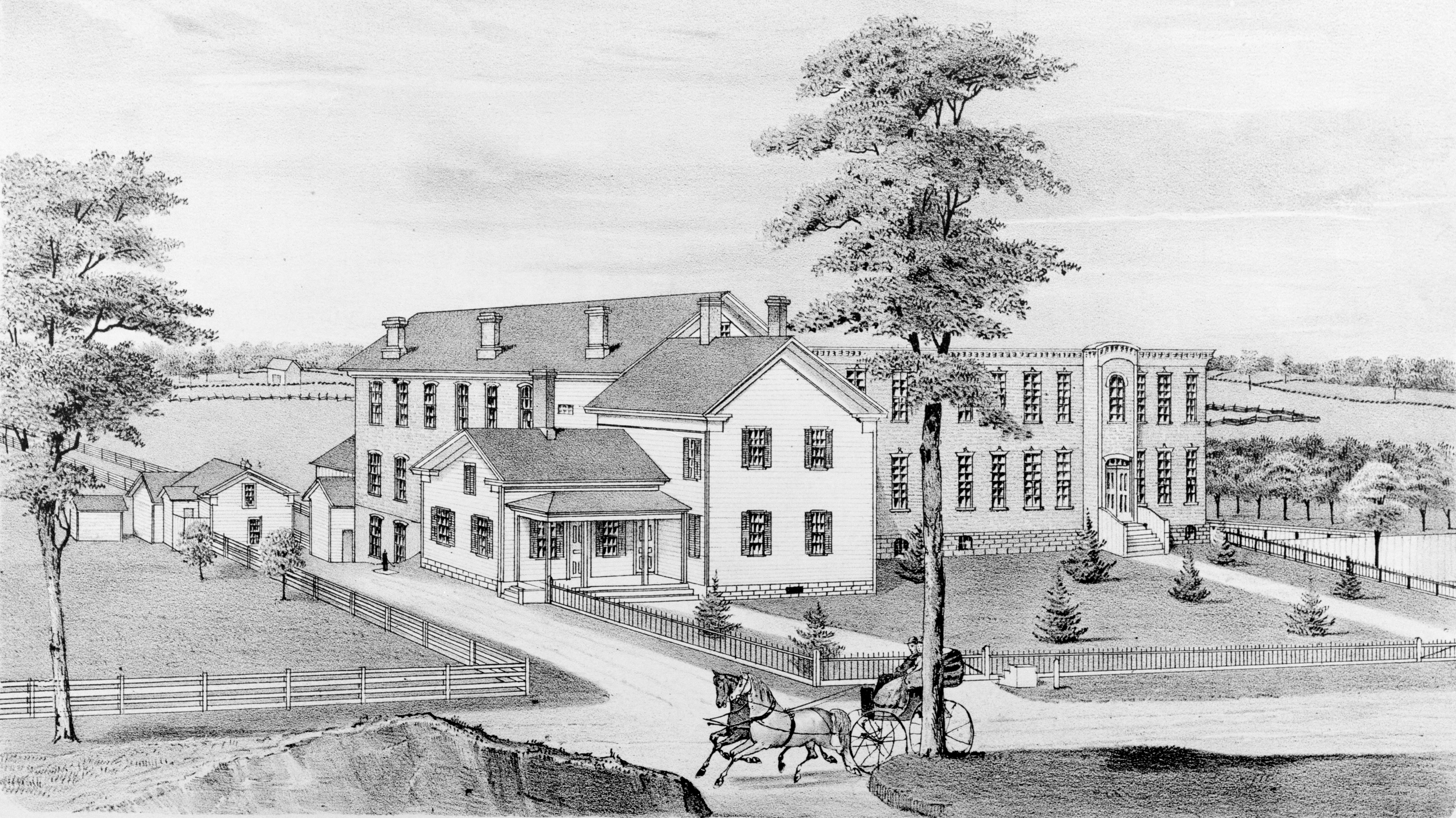 The Washtenaw County Poor House & Insane Asylum, which stood on land that is now part of County Farm Park in Ann Arbor, Michigan.